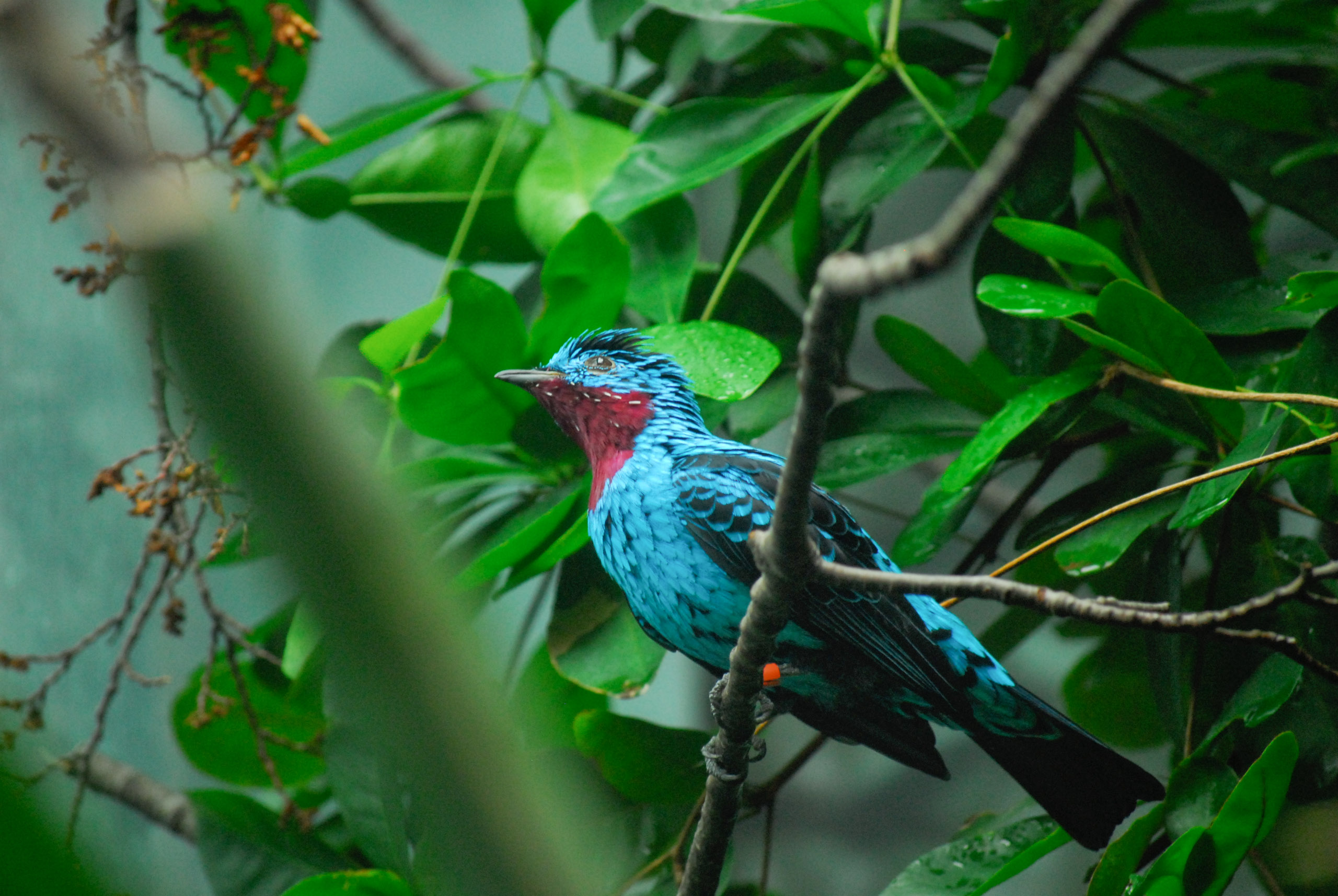 Spangled Cotinga - Cotinga cayana at woodland park zooPretty Birdie